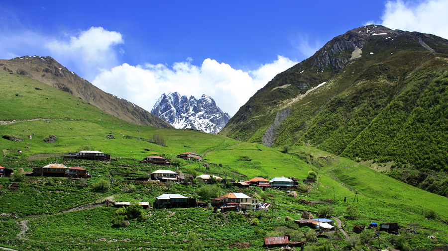 Khevi, Georgia — Mountainous Village Juta